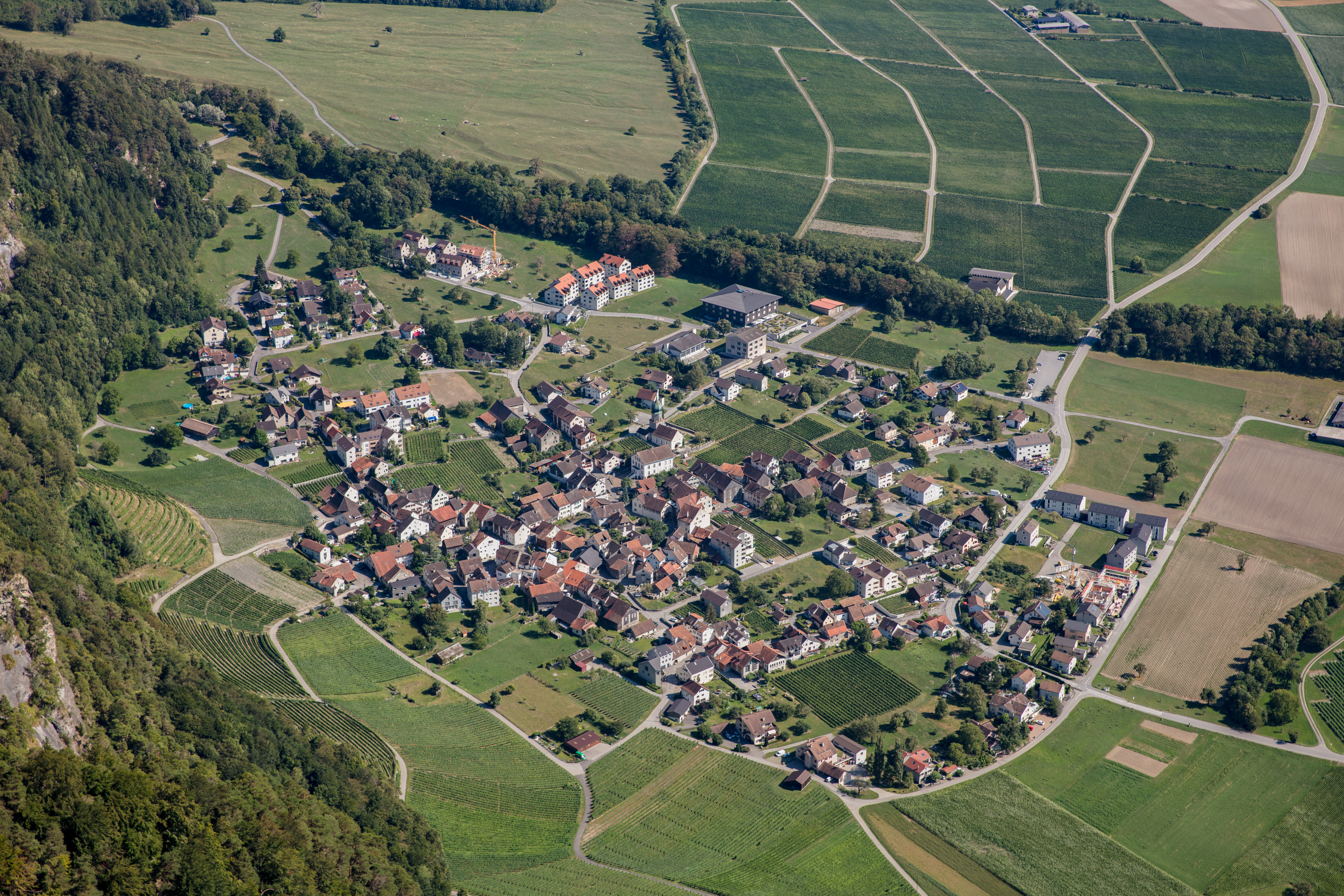 Winegrowing village Fläsch, photographed from the summit "Regitzer Spitz".